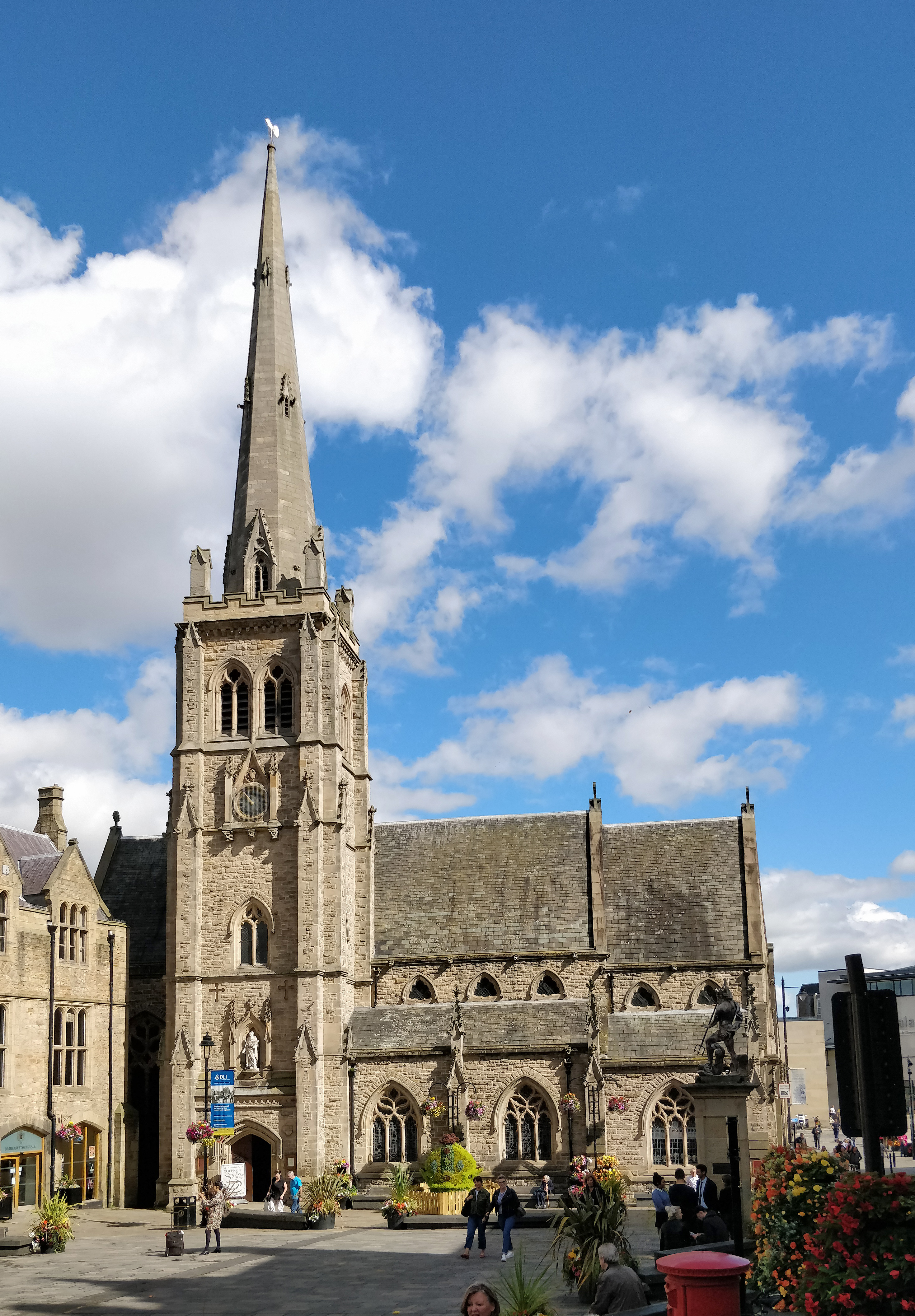 St Nicholas Church, Durham from the other side of the marketplace, in sunshine. Perspective-corrected edit of File:St Nicholas Church Durham TSP 2.jpg.